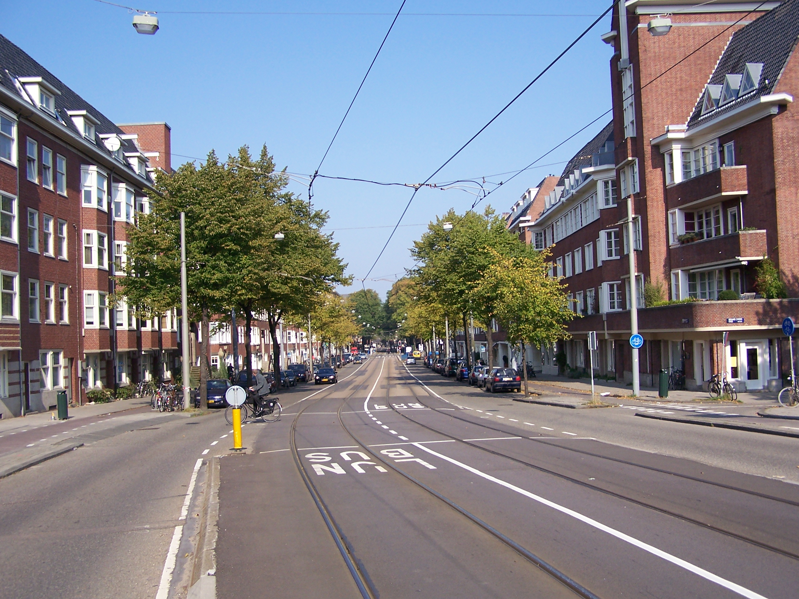 This picture shows the Beethovenstraat (Street of Beethoven) in Amsterdam, in the Netherlands. Author: Mig de Jong, september 2005